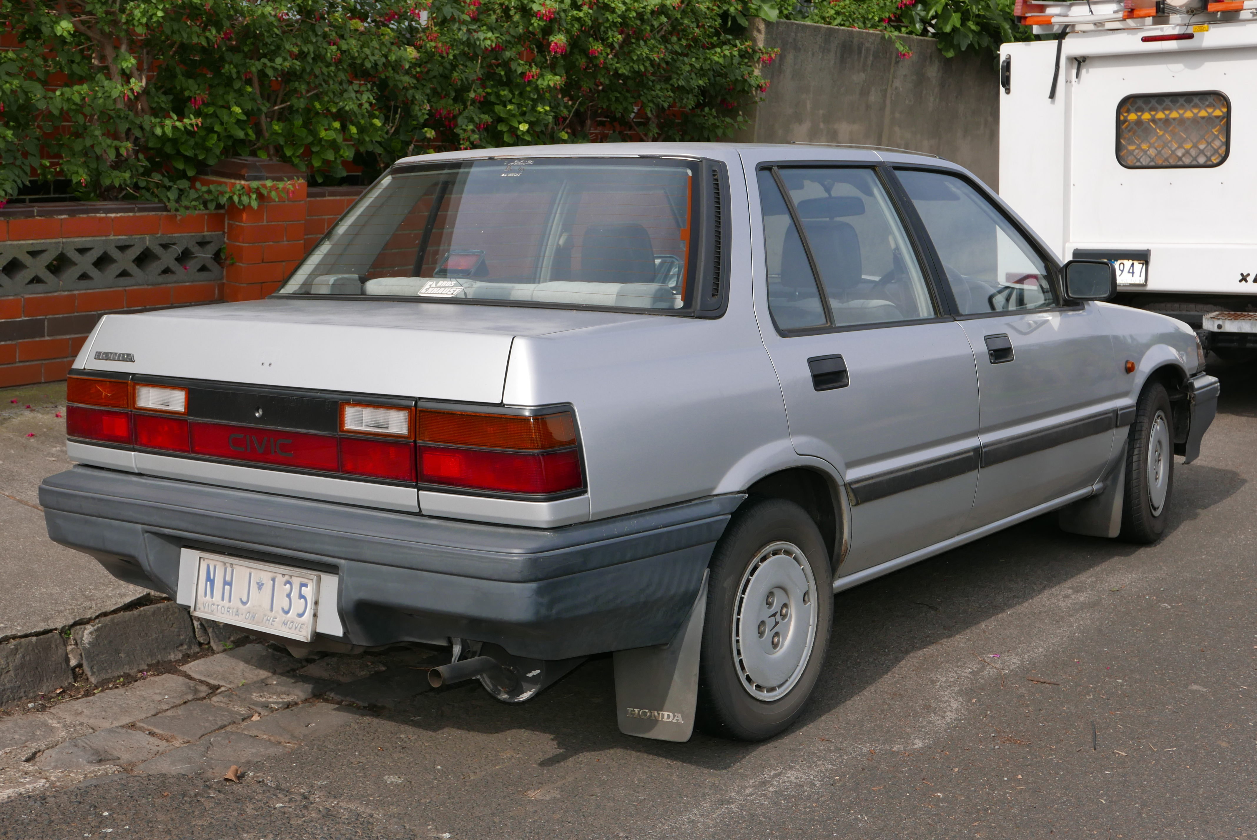 1987 Honda Civic (AK) sedan. Photographed in Ascot Vale, Victoria, Australia. Vehicle registration enquiry results Jurisdiction Victoria Registration NHJ135 Chassis code Not available Engine code EW21616443 Compliance date Not available Year of manufacture 1987